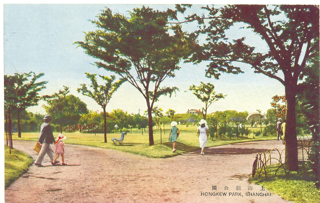 Photo of Shanghai's Hongkou Park (now Lu Xun Park) during International Settlement era, labeled "HONGKEW PARK, SHANGHAI".